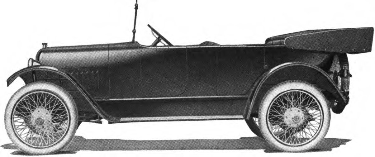 This image is from a book from the Internet Archive collection of public domain books. The book itself is dated 1919, but the notes at the archive read as follows: Book digitized by Google from the library of the University of Michigan and uploaded to the Internet Archive by user tpb. Reprint of the 1915 and 1916 issues of the annual handbook, later called Official handbook of automobiles. It was originally issued by the National Automobile Chamber of Commerce, which later became Automobile Manufacturers Association